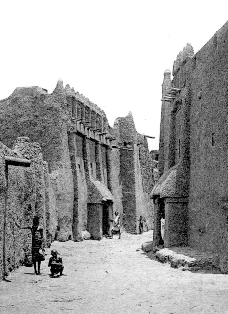 Cropped postcard 414 by Edmond Fortier. A street in Djenné, Mali in 1906 showing houses with Toucolor–style facades